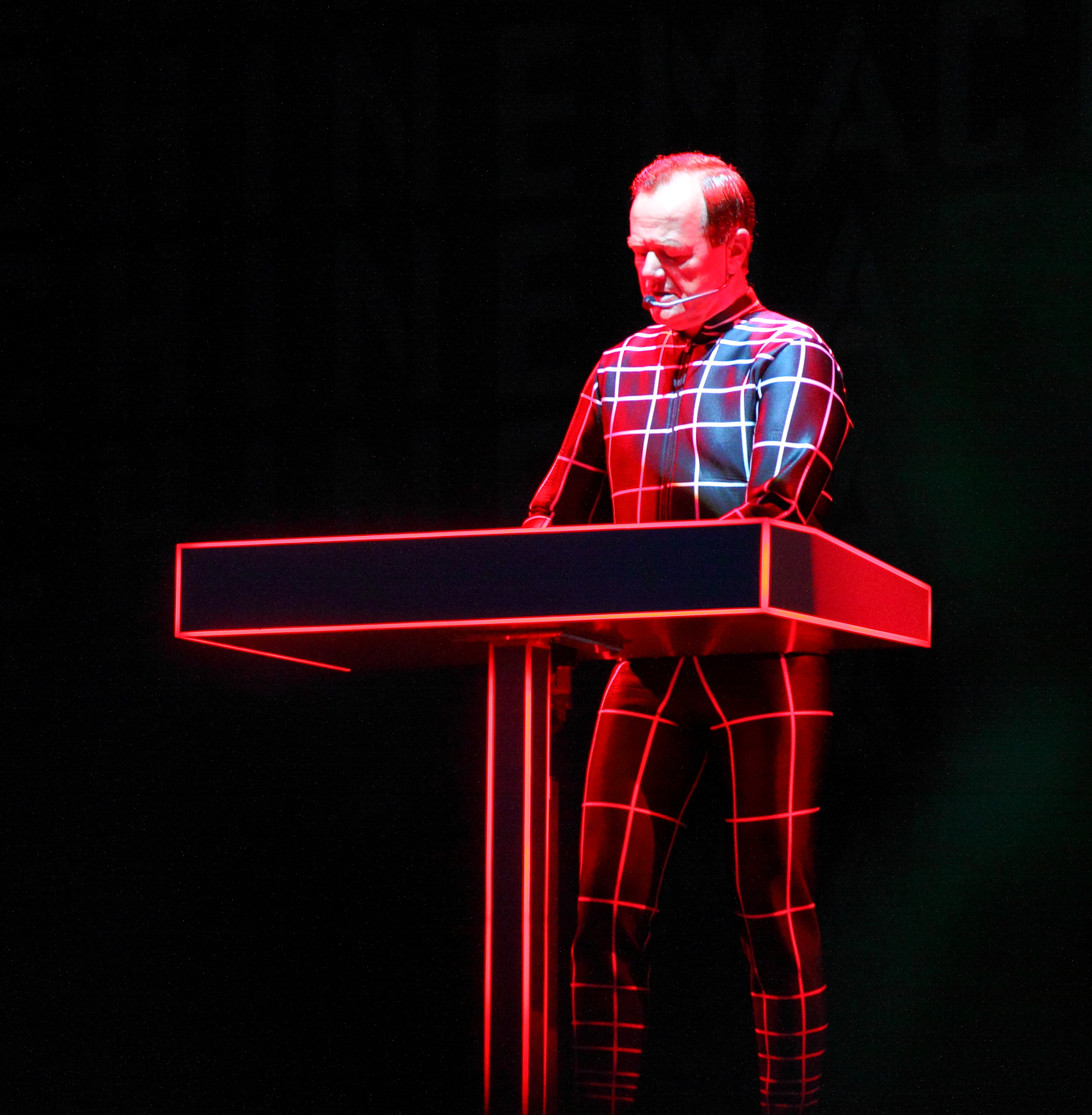 Ralf Hütter from Kraftwerk live @ roskilde festival 2013.